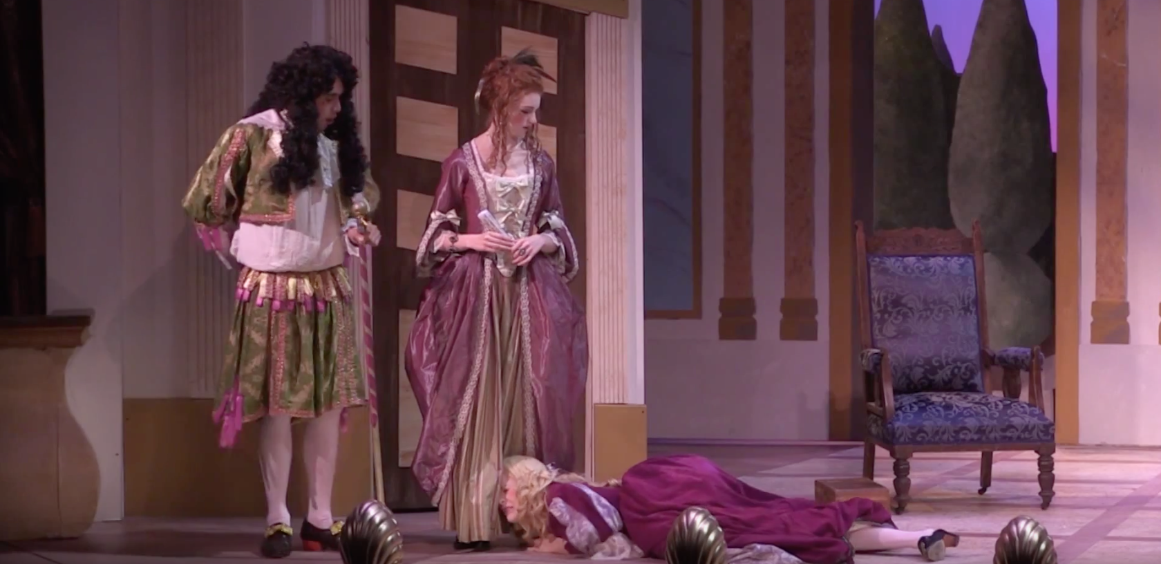 Performance by the Cal Lutheran Theater Department at the Preus-Brandt Forum Theatre